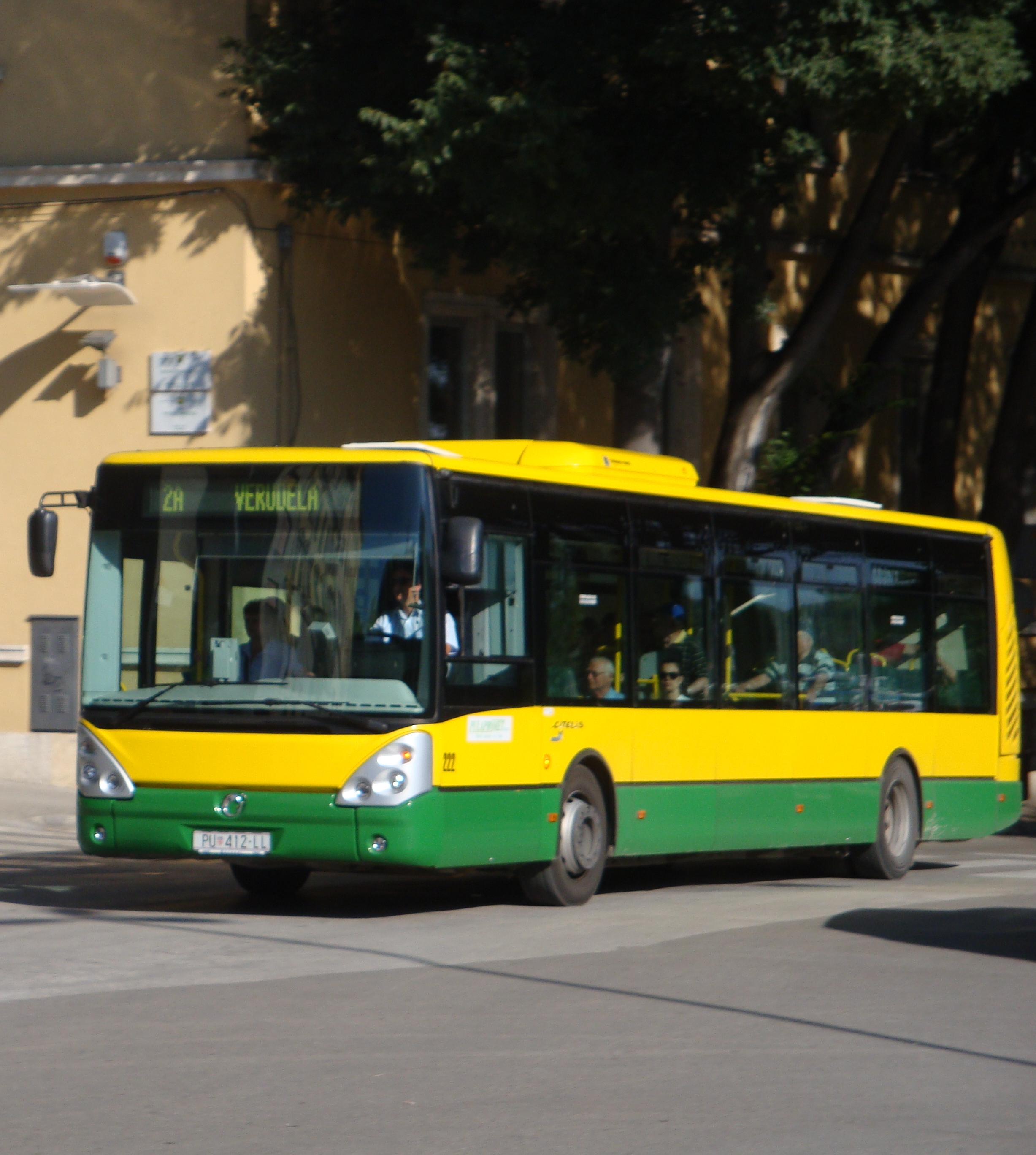 Citelis in Pula, Istria